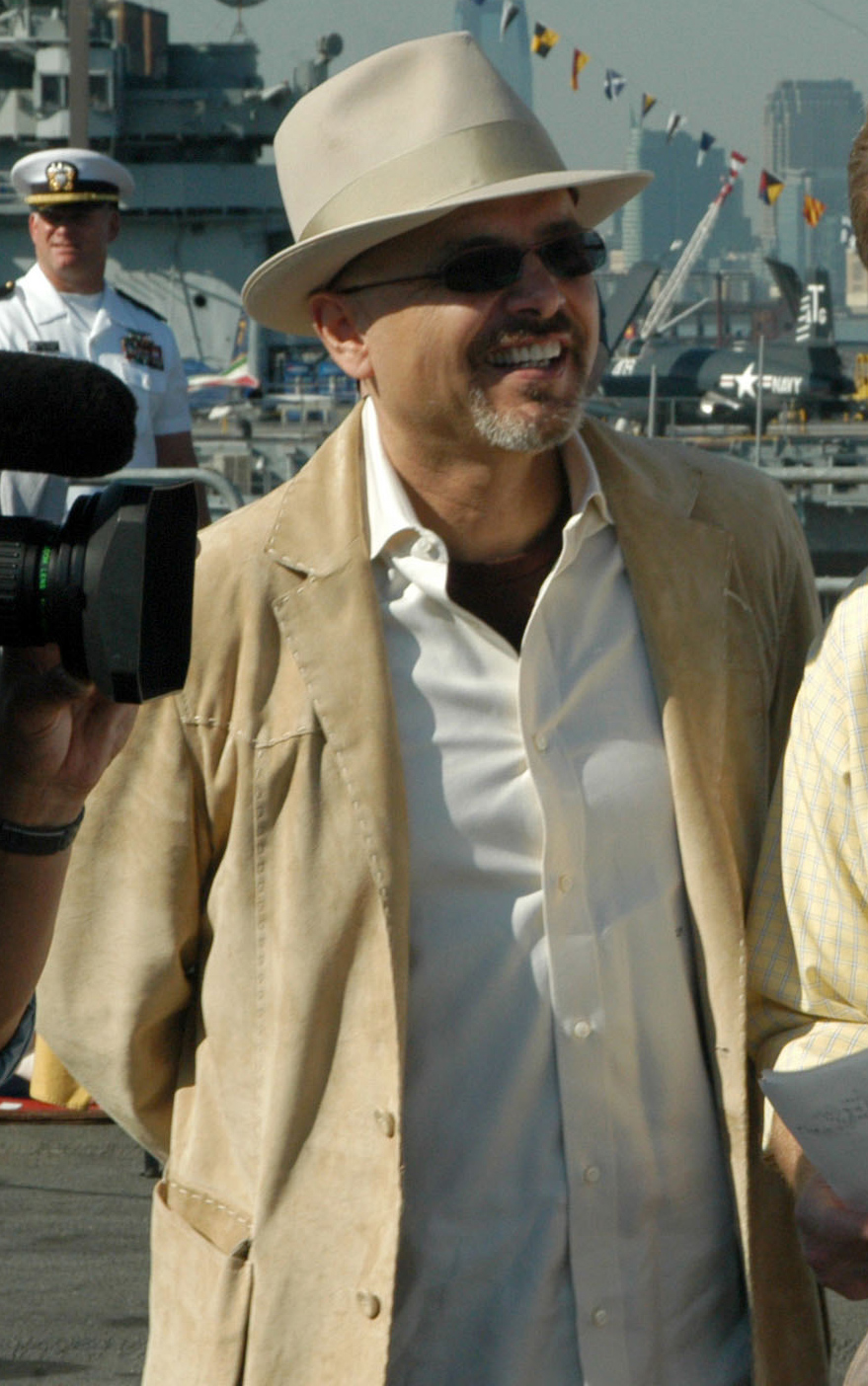 050527-N-7695R-006 New York City - Actor Joe Pantoliano, left, and News Anchor and Co-Host of Fox and Friends, Steve Doocey, center, speak with a Sailor aboard USS John F. Kennedy (CV 67) during Fox News coverage of Fleet Week 2005. Fleet Week allows the community to celebrate the sacrifices made by the U.S. Navy, Marine Corps, and Coast Guard by giving them the opportunity to visit the city and experience the "Big Apple's" hospitality.